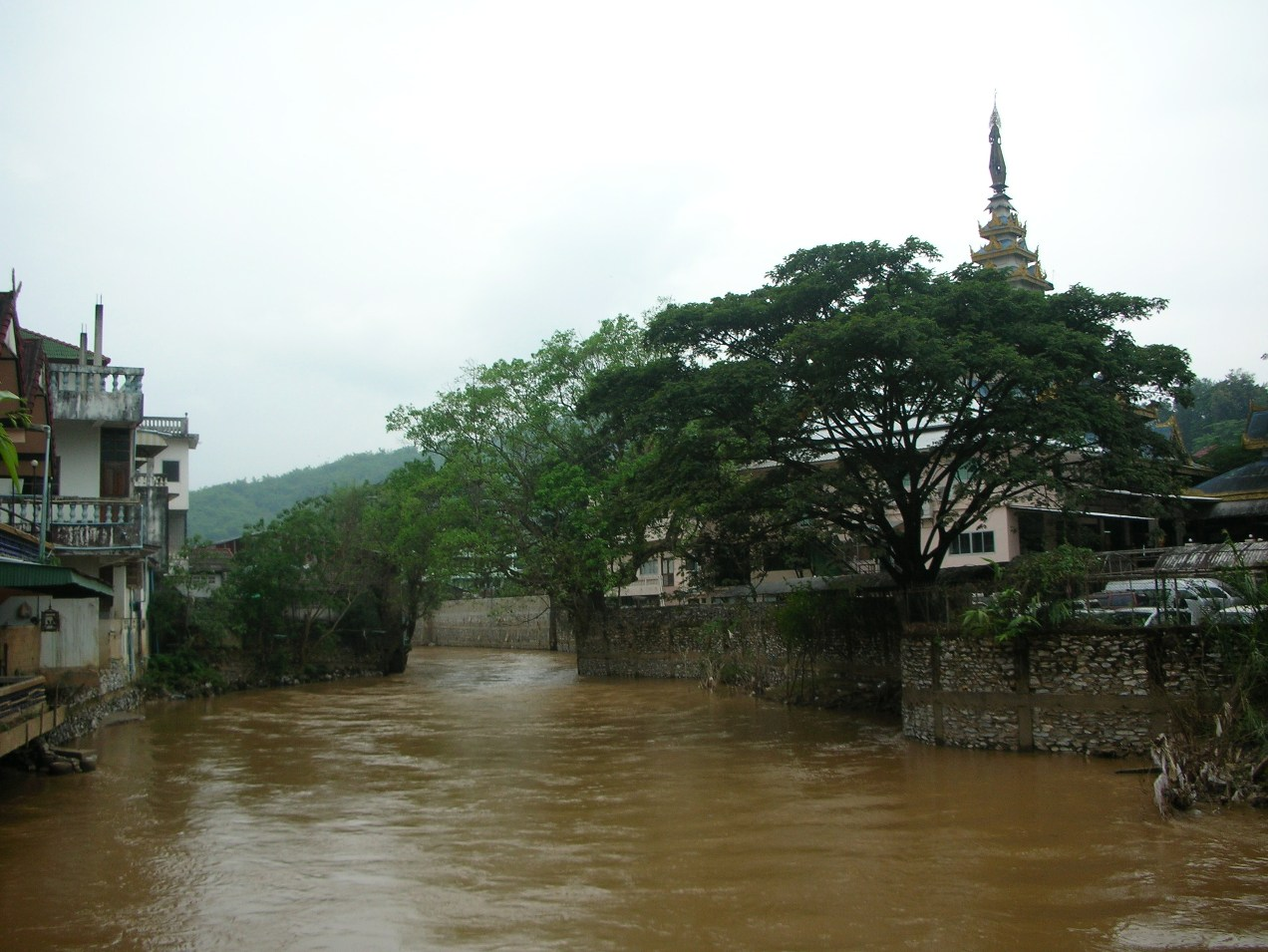 View of the Mae Sai River. Tachileik on the right and Mae Sai on the left